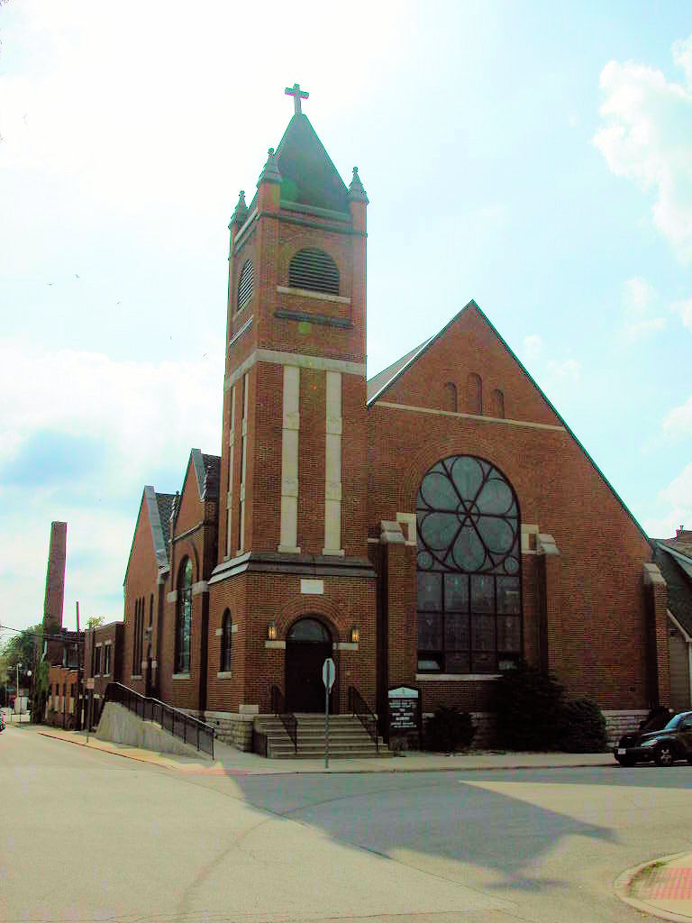 First Presbyterian Church of Hartford City, Indiana, west side.